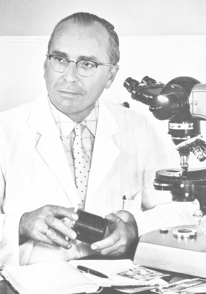 During World War II, microscope development has to be soft-pedaled, on government order. Nevertheless, the microscope development laboratory designs and builds a cine-micrographic apparatus and in 1943 shoots the first cine record of a cell division through a phase microscope – an examination method that opens up a new era of cell research. Images donated as part of a GLAM collaboration with Carl Zeiss Microscopy - please contact Andy Mabbett for details.